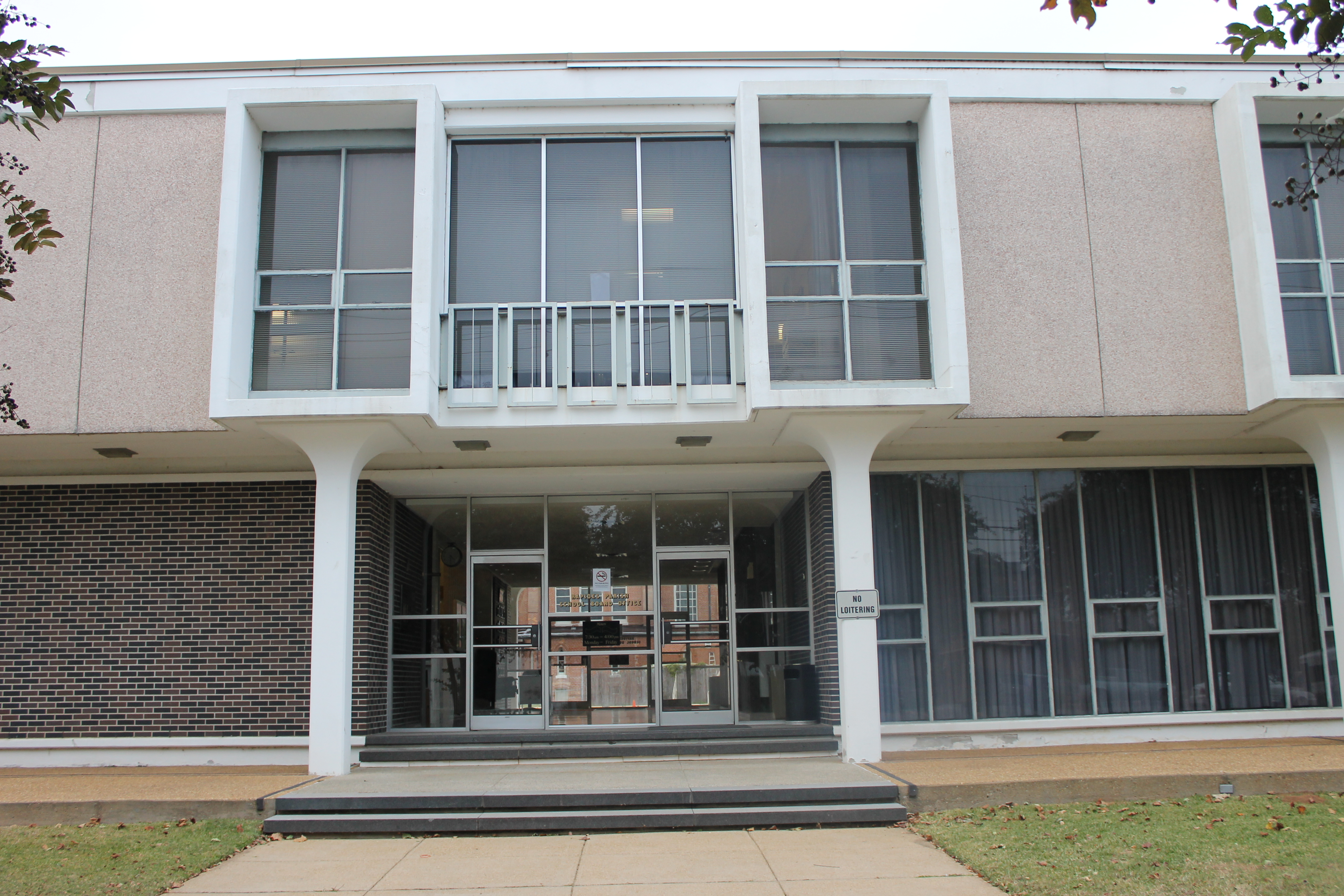 Rapides Parish School Board office in Alexandria, LA